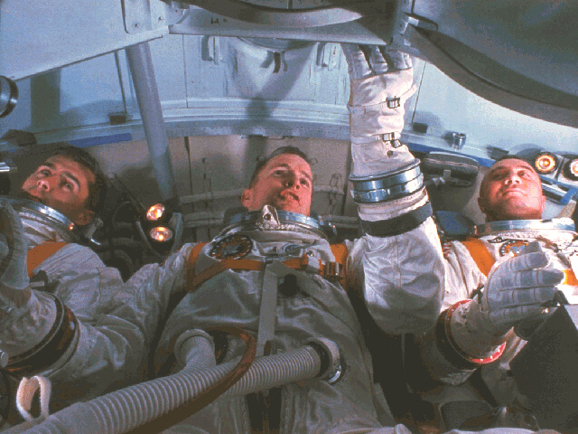 Apollo 1 crew during simulator-training. Left to right: Chaffee, White, Grissom.